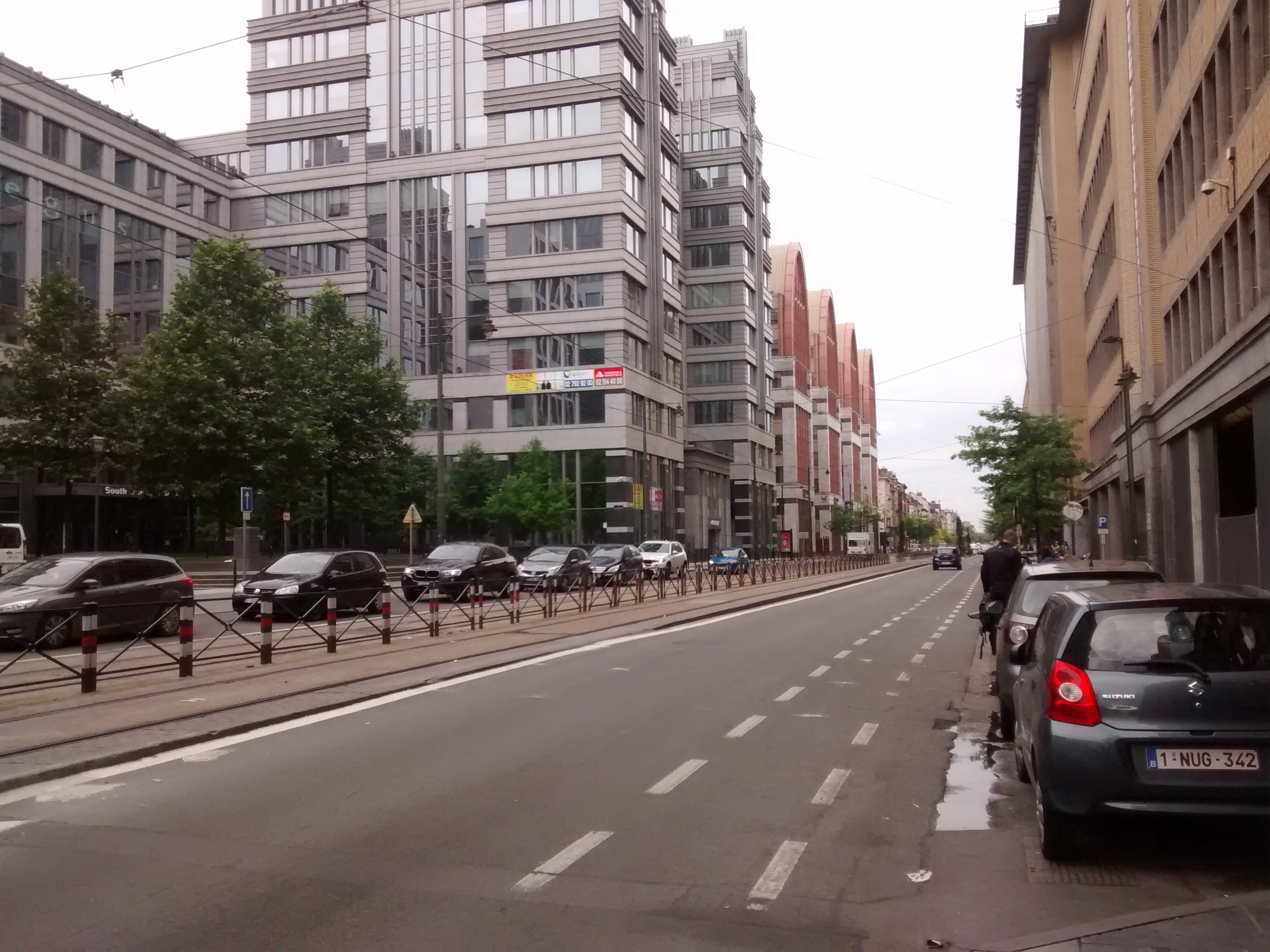 Buildings constructed in the 2010s Avenue Fonsny, in front of the South station, Brussels, Belgium. The location was full of popular cafés.